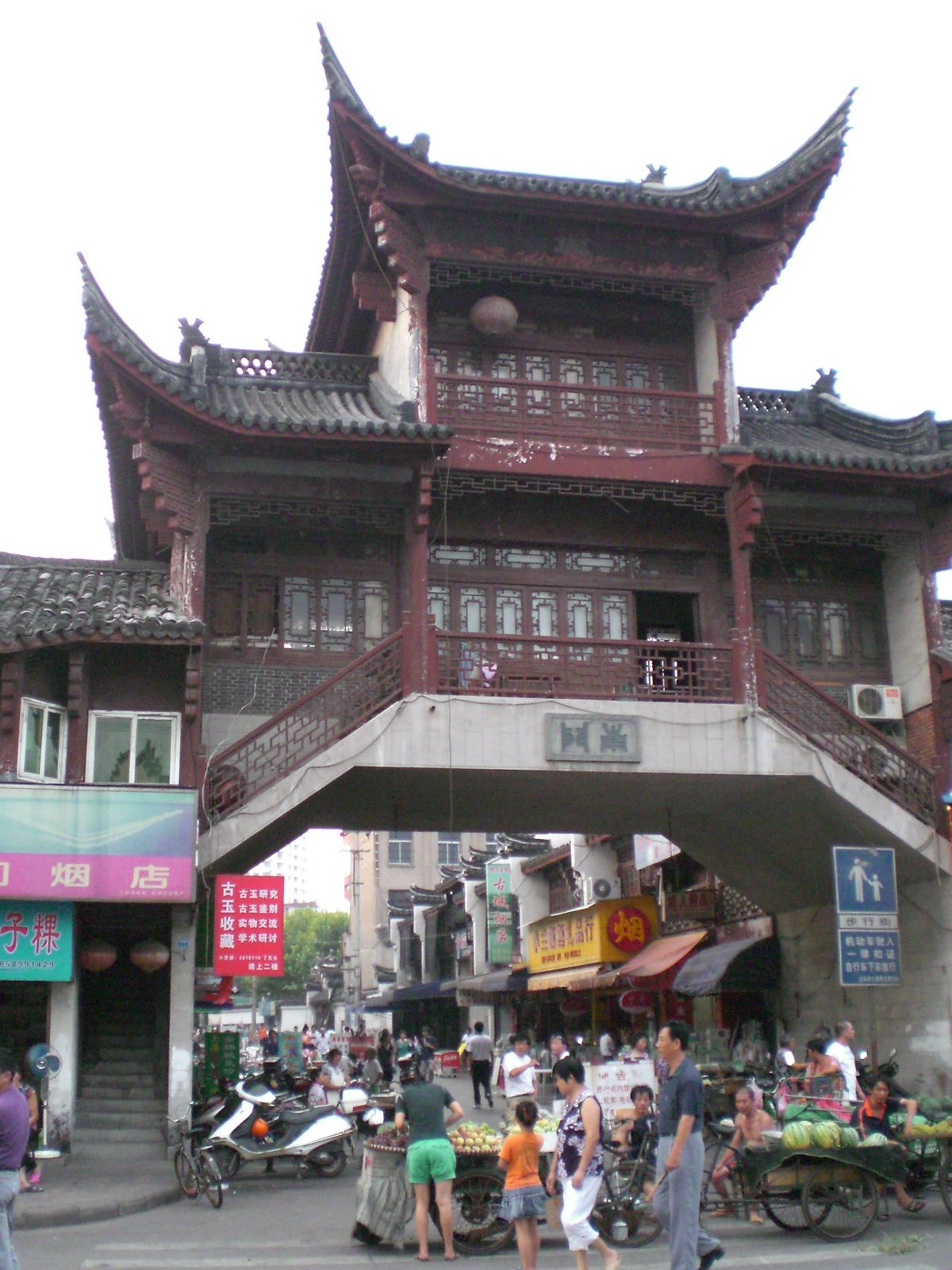 Southern Gate (Nan Men), Lanxi